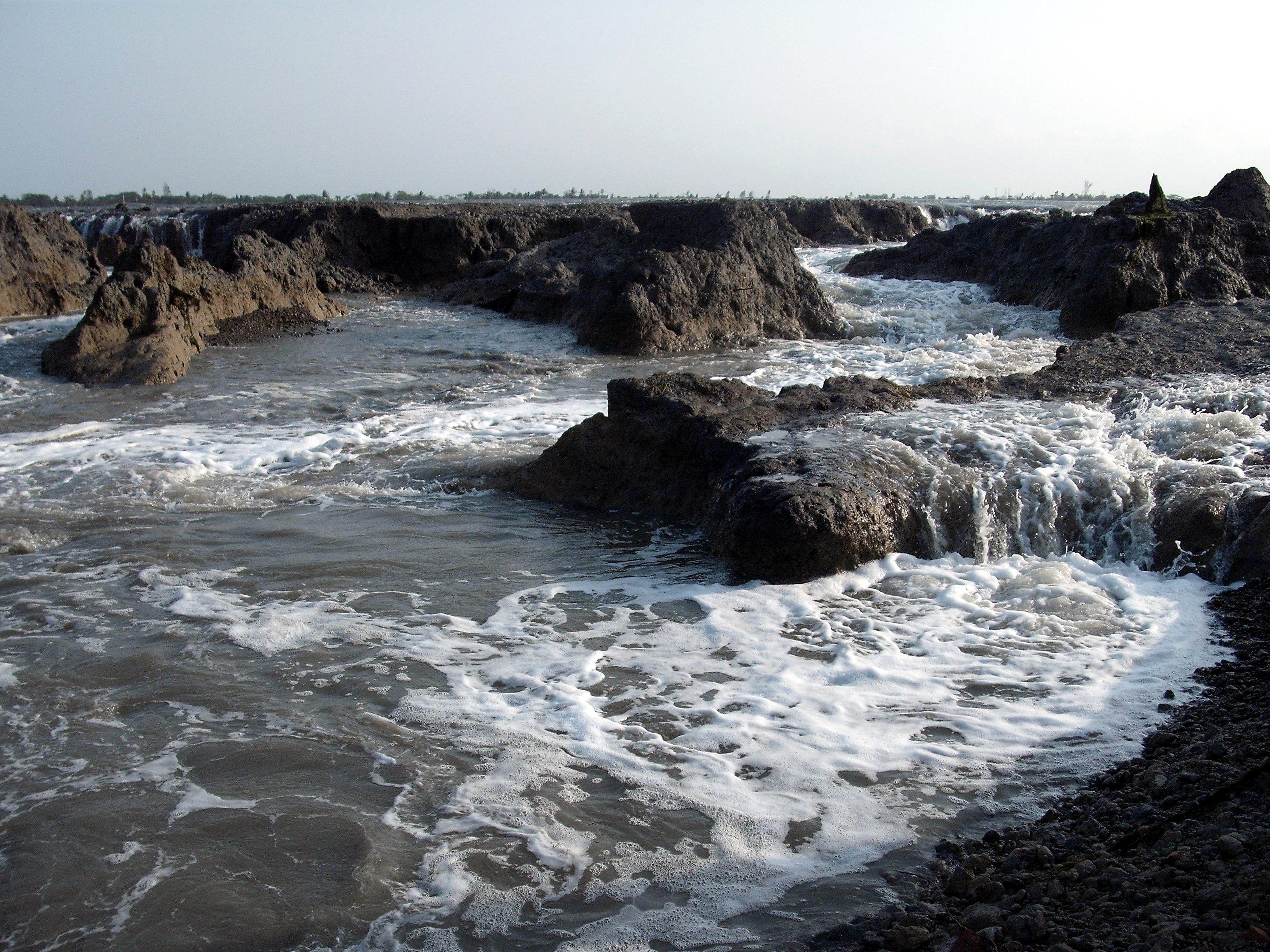 Across Sunderban, acres of fields have been flooded by sea water, after dikes were broken by the devastating force of waves built up by cyclone Aila